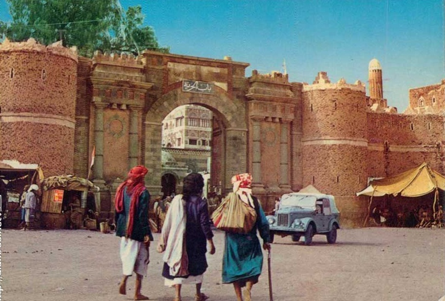 باب اليمن 1963